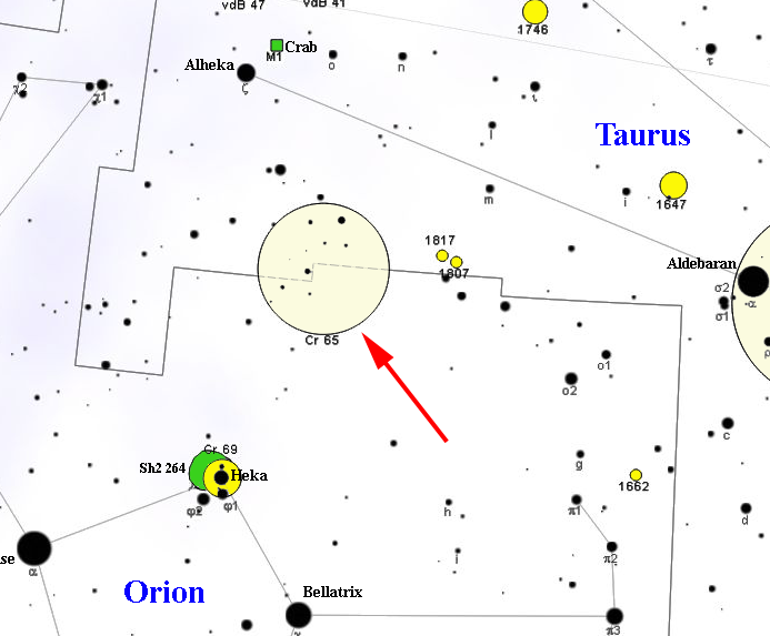 Map of Cr 65